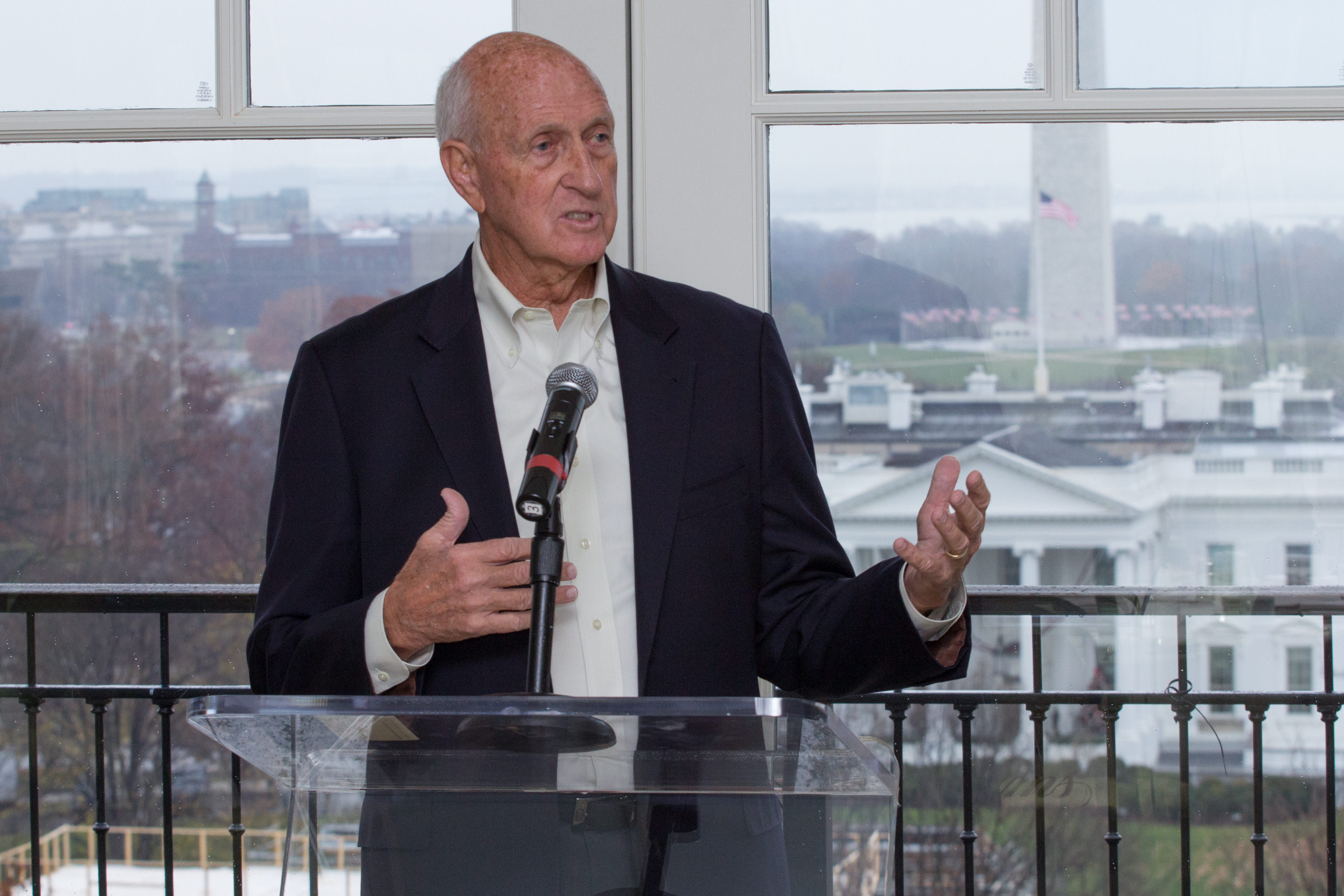 Warren Rustand speaking about the character of leaders from the Hay Adams Hotel with the White House in the background.